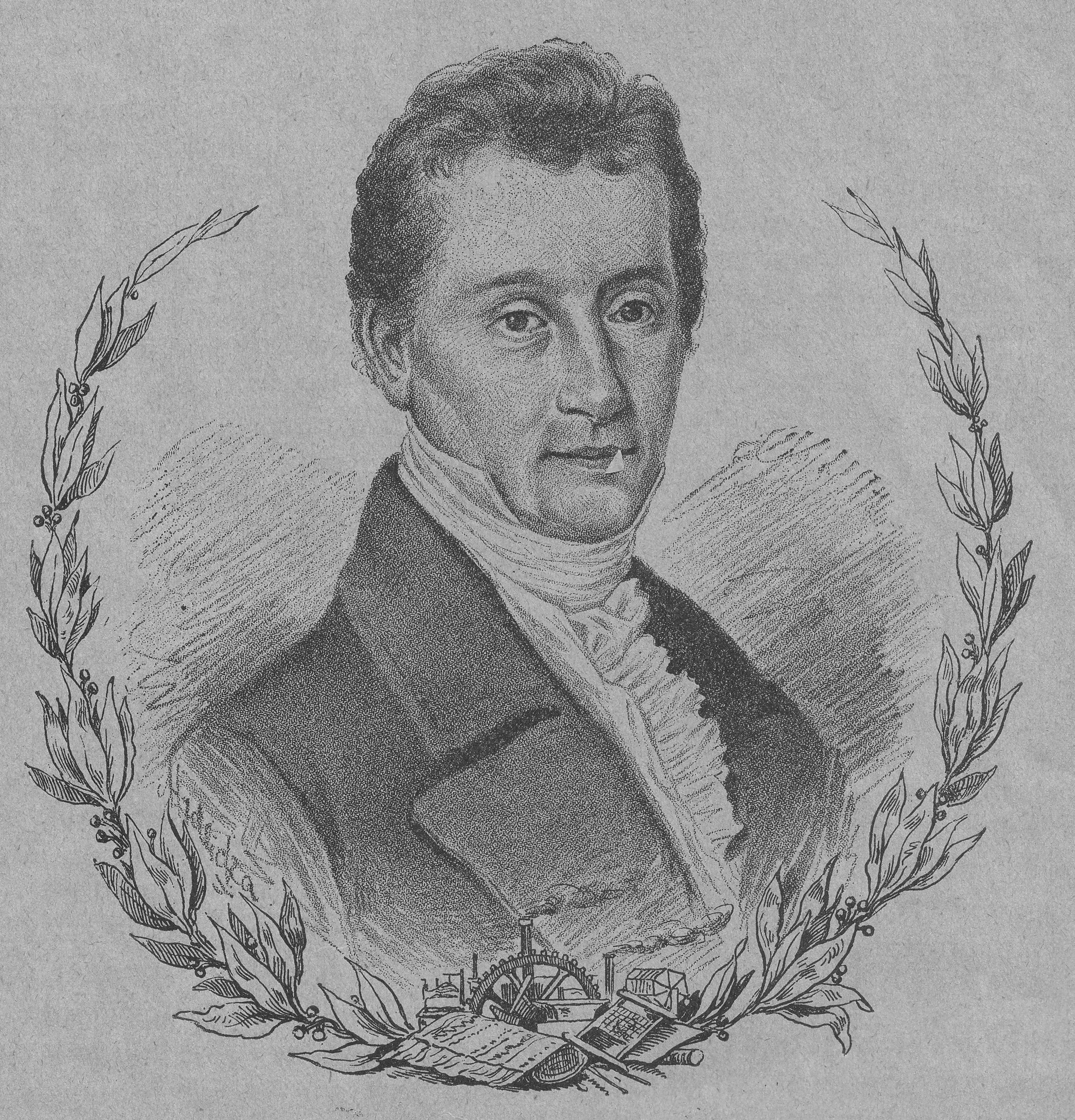 Naum Bozda (1784-1853), a Serbian benefactor in Hungary. Taken from the 1896 edition of the calendar Orao. Srpski (latinica): Naum Bozda (1784-1853), srpski dobrotvor u Ugarskoj. Preuzeto iz izdanja kalendara Orao za 1896. godinu.